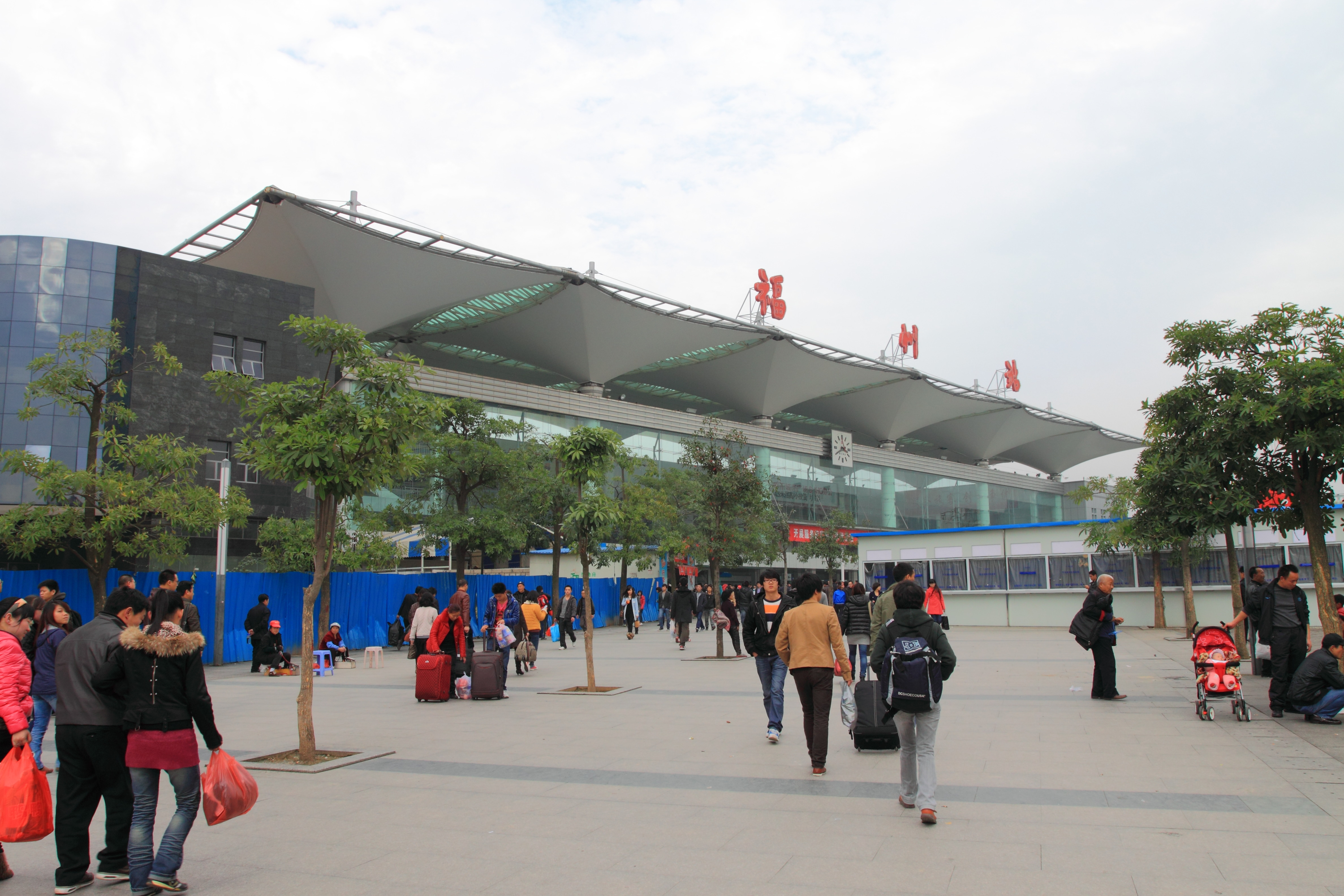 Fuzhou Railway Station